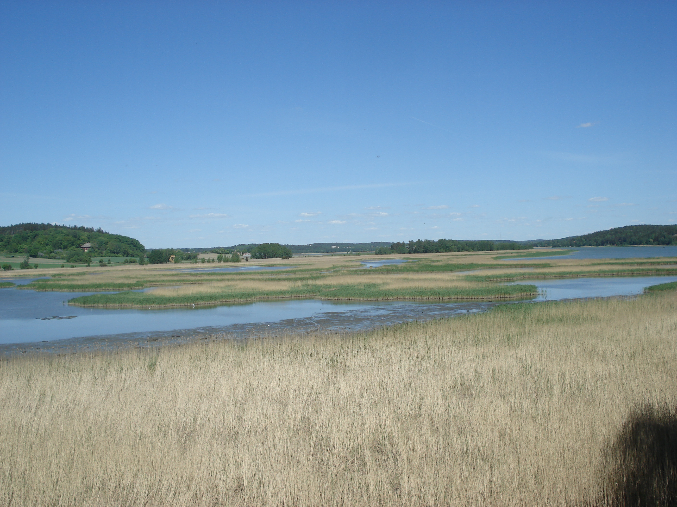 Kuusistonlahti at Kaarina, Finland.